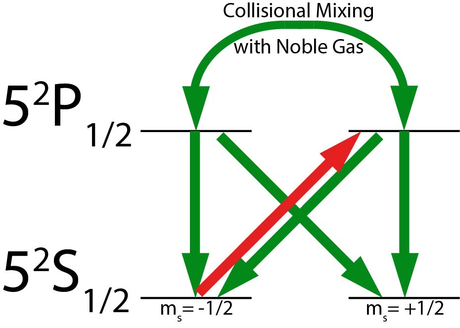 Transitions that occur when circularly polarized light interacts with the alkali metal atoms. The red arrow represents the first transition that occurs when the alkali metal electrons are excited by the laser light.